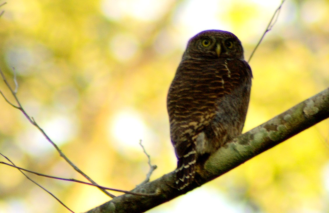 Jungle owl, Manas National Park, Assam, India